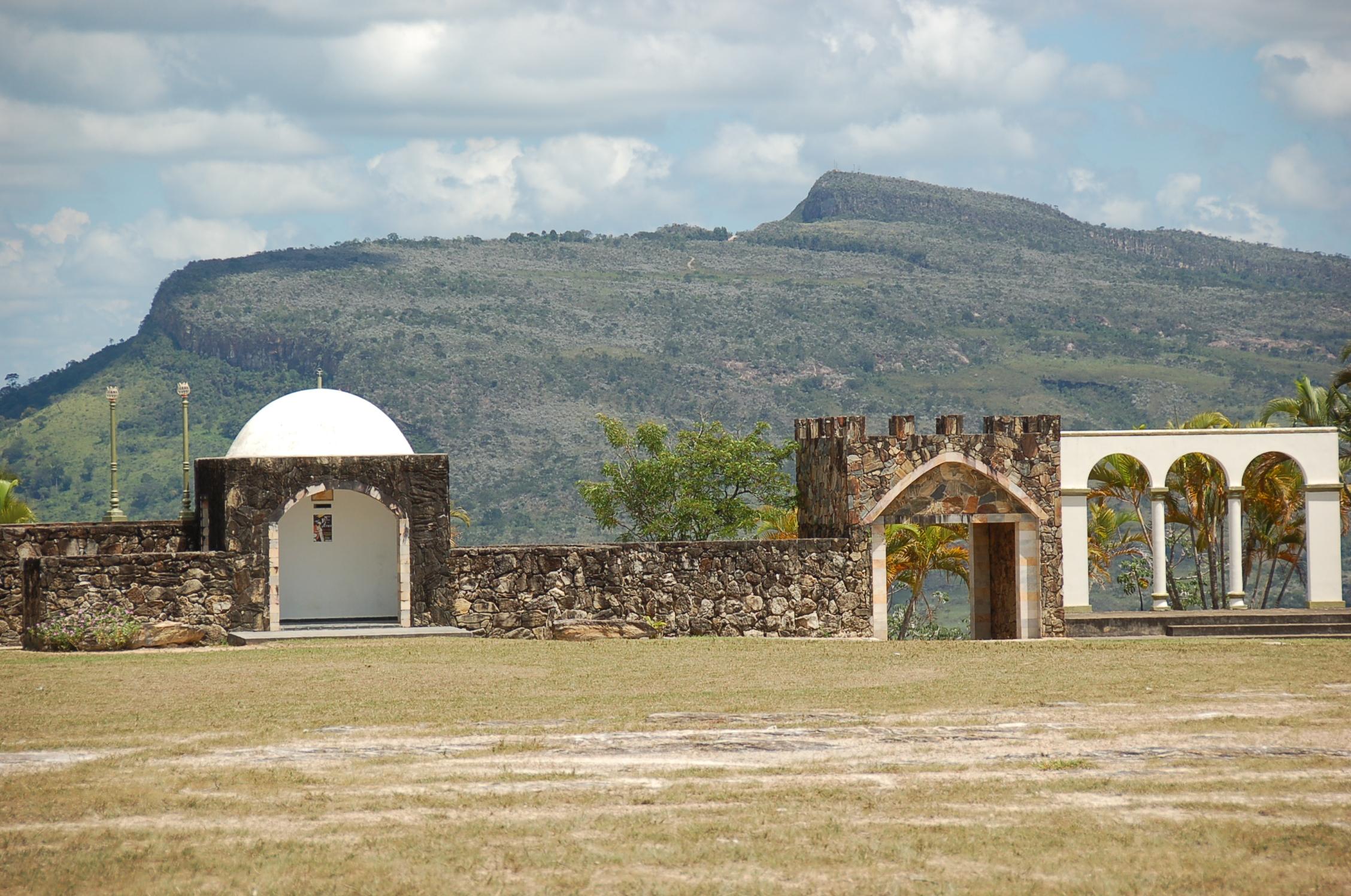 View of the Monte das Oliveiras biblical park (stage with Ventania hills - Serra da Ventania- at the background) Alpinopolis - MG - Brazil